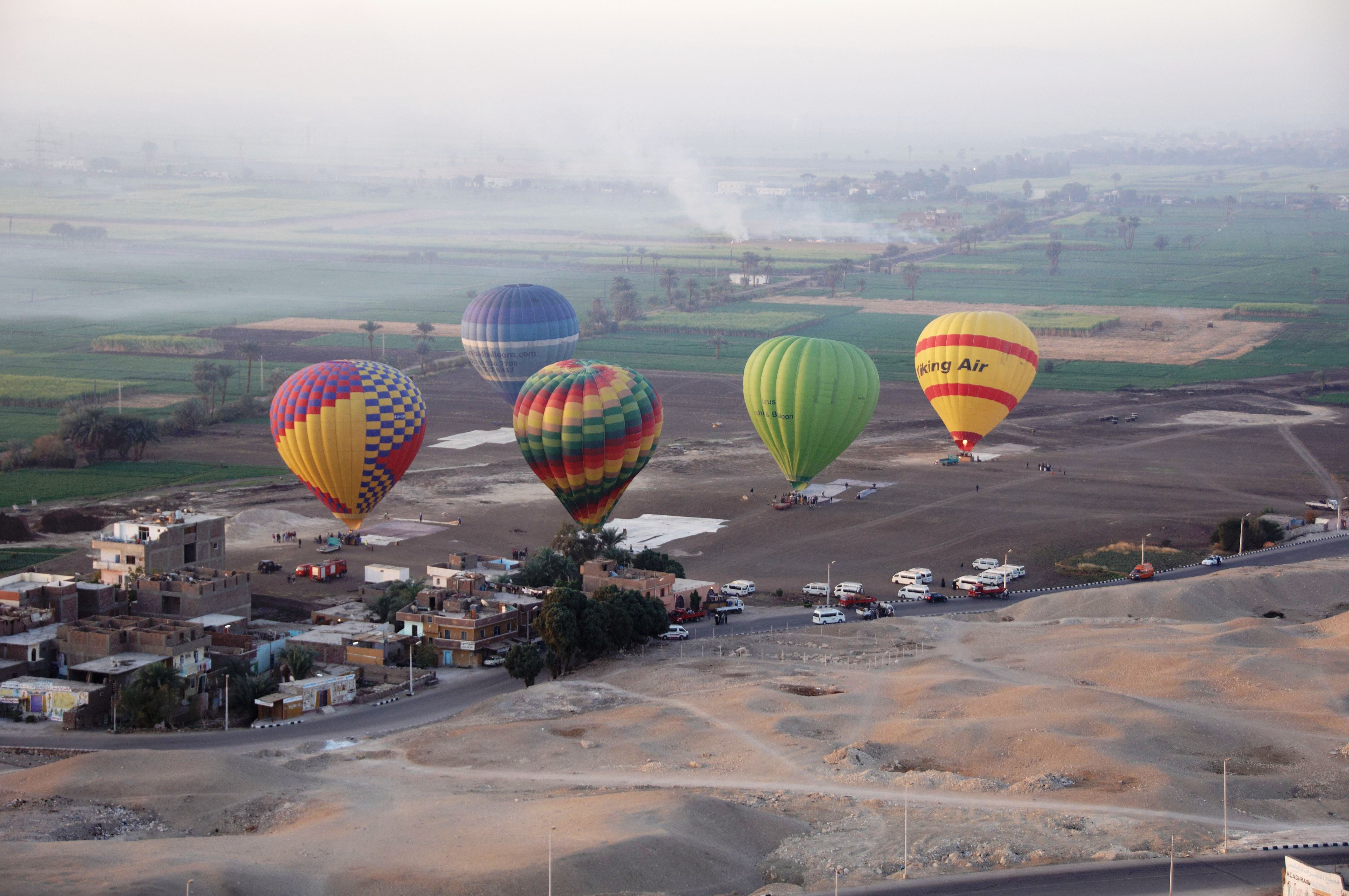 Hot air balloons near Luxor, Egypt